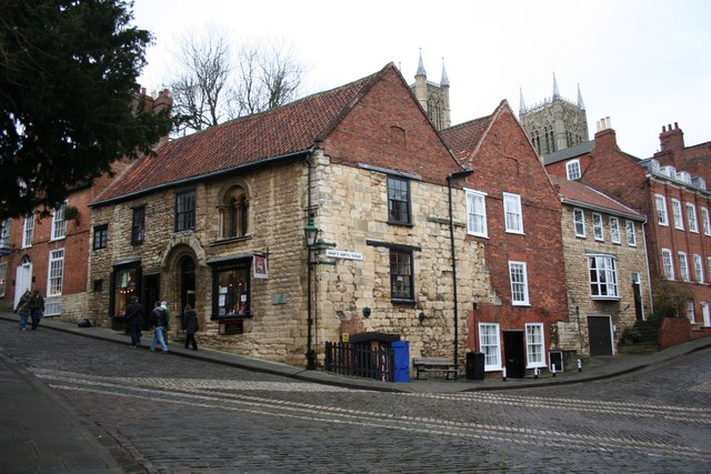 Norman House One of Lincoln's oldest houses, erroneously named "The House of Aaron the Jew" ... Aaron lived in Lincoln and died in 1186 and this would have been the home of a wealthy man. On the corner of Steep Hill and Christ's Hospital Terrace